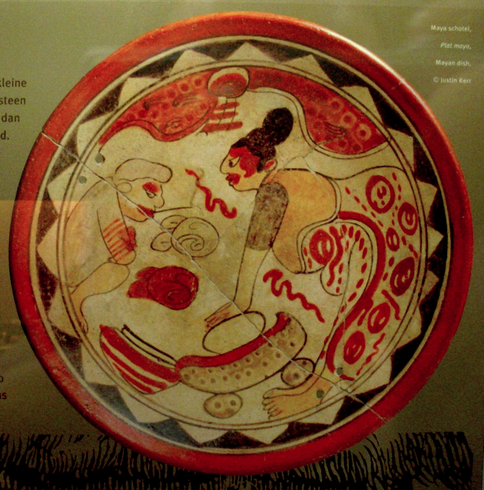 Mayan dish showing a metate to grind cocoa. Choco-Story museum Brugge (Belgium)